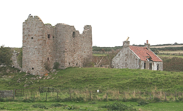 Findochty Castle. There's not much left of the castle, and little more of the adjacent cottage.